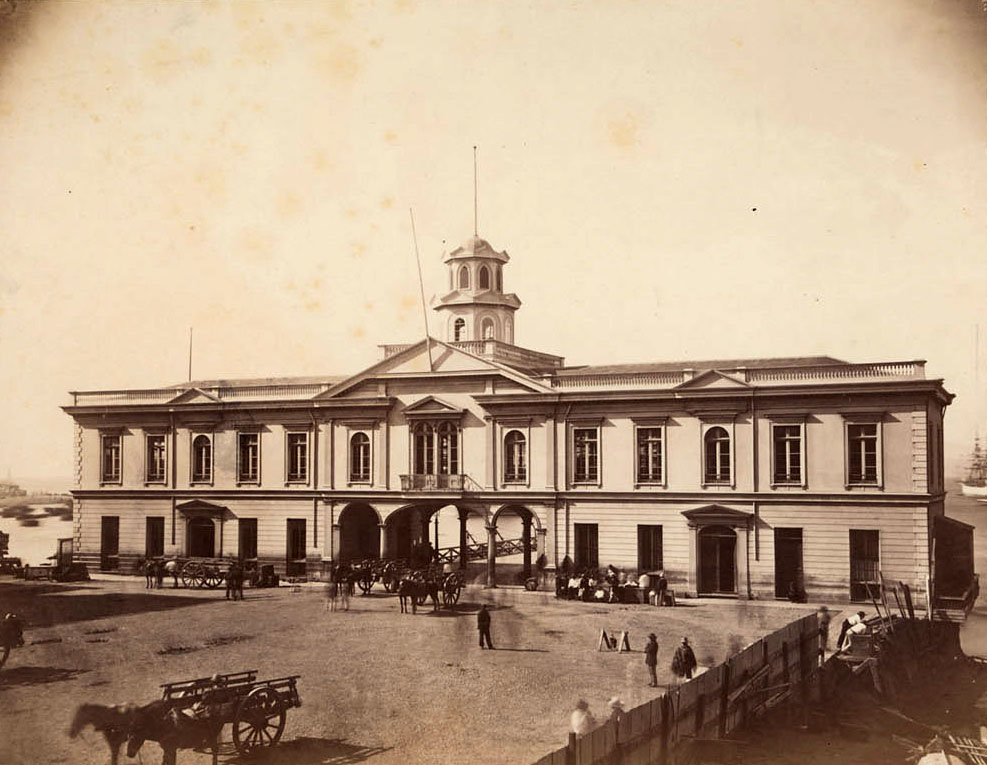 "La Bolsa de Valparaiso in 1867" with horse carts in front. [photographic print]